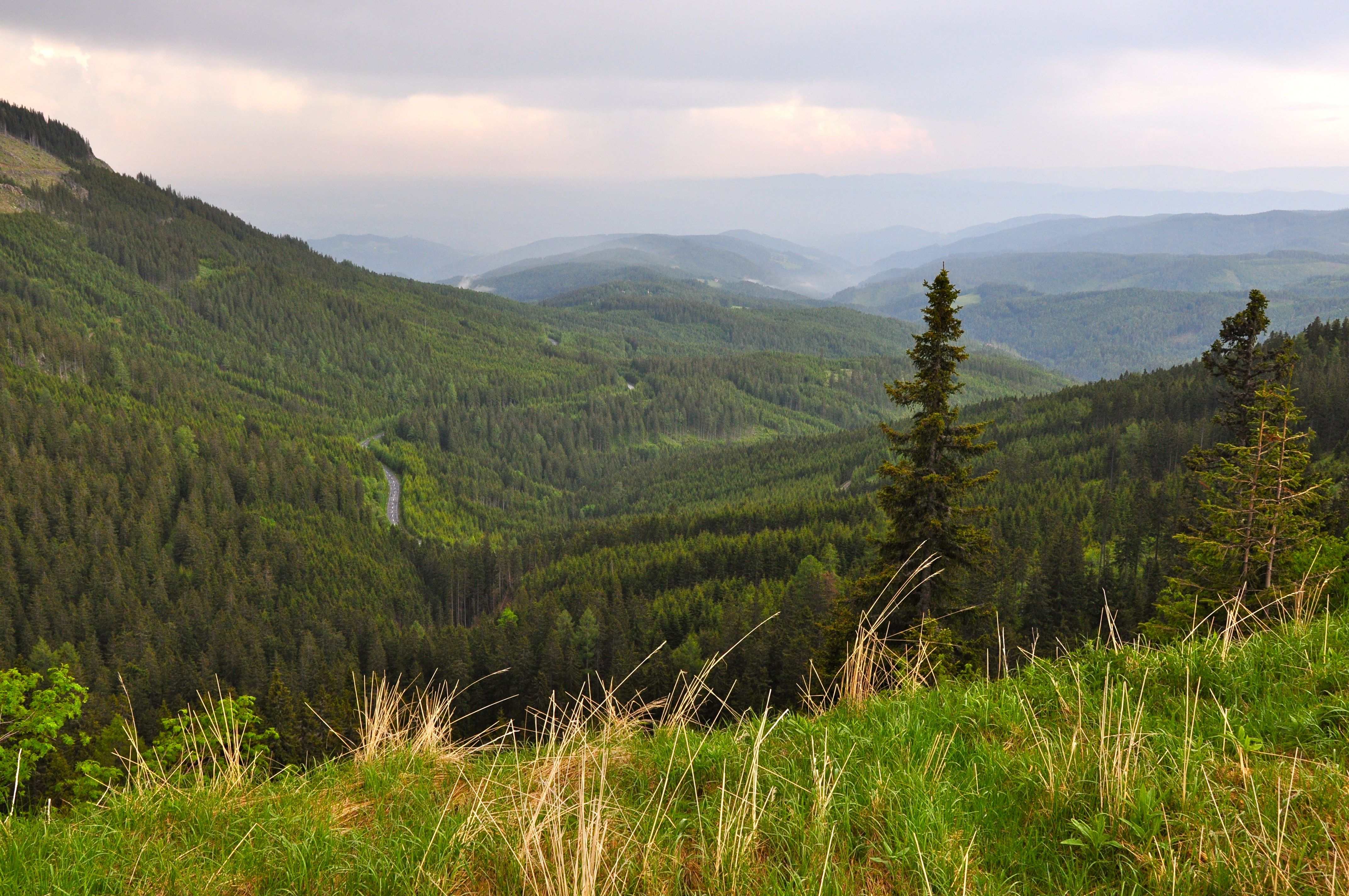 Mountain pass Weinebene (road from Frantschach-St. Gertraud to Deutschlandsberg), municipality Weineben, district Deutschlandsberg, Styria, Austria